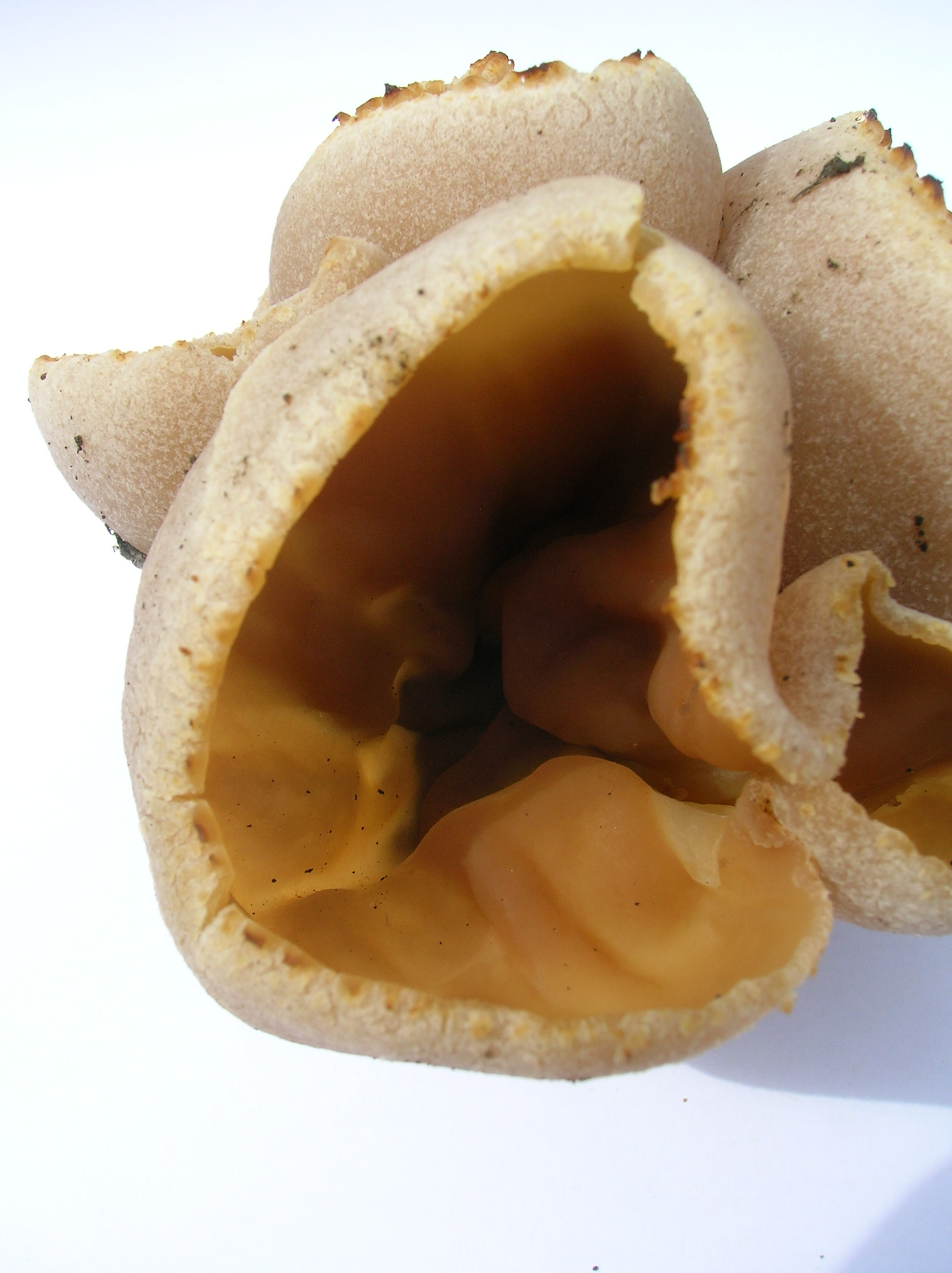 Peziza cerea from Eglinton Country Park, Ayrshire, Scotland.